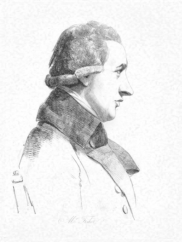 Portrait of John Fisher